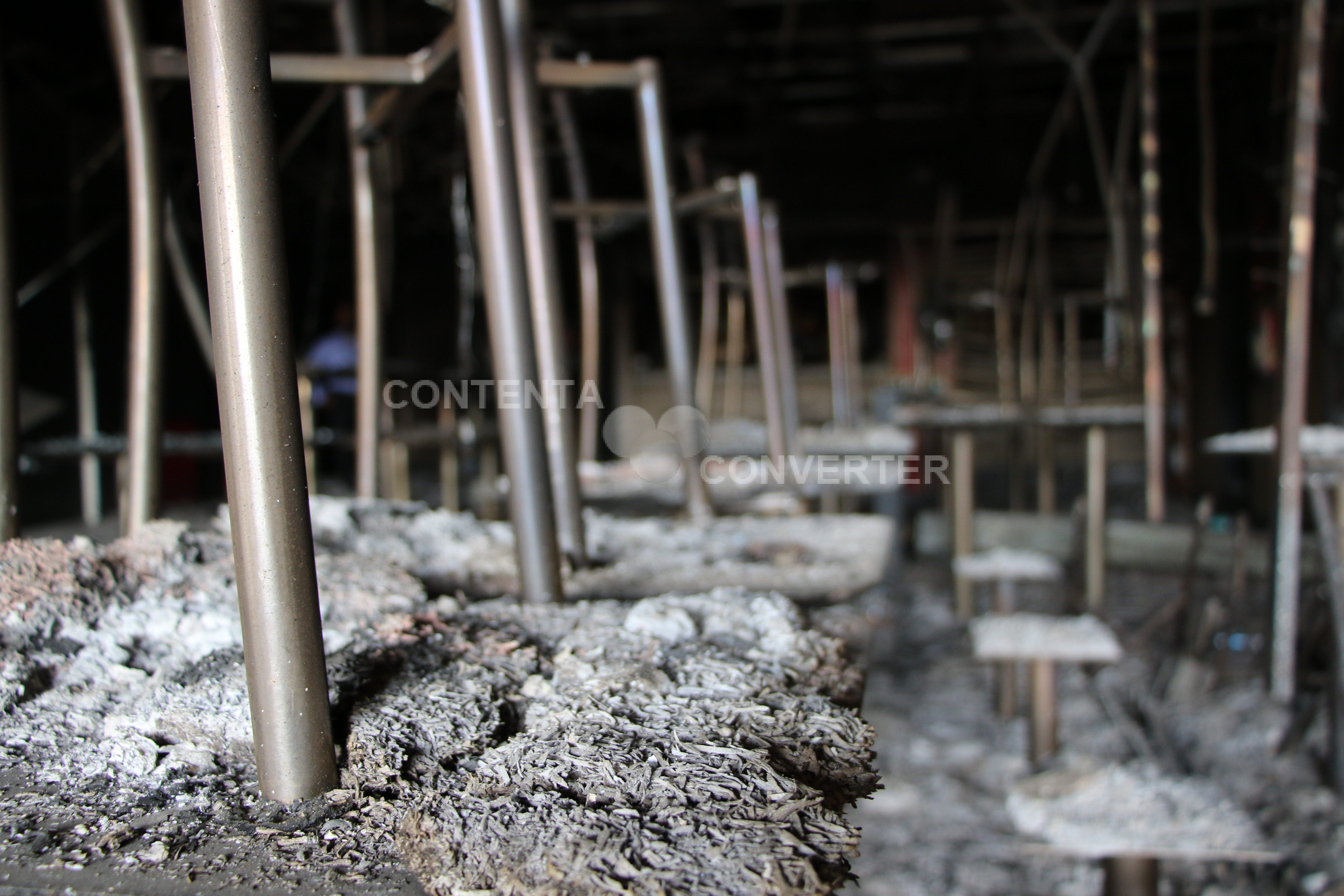 Rohtak riots aftermath